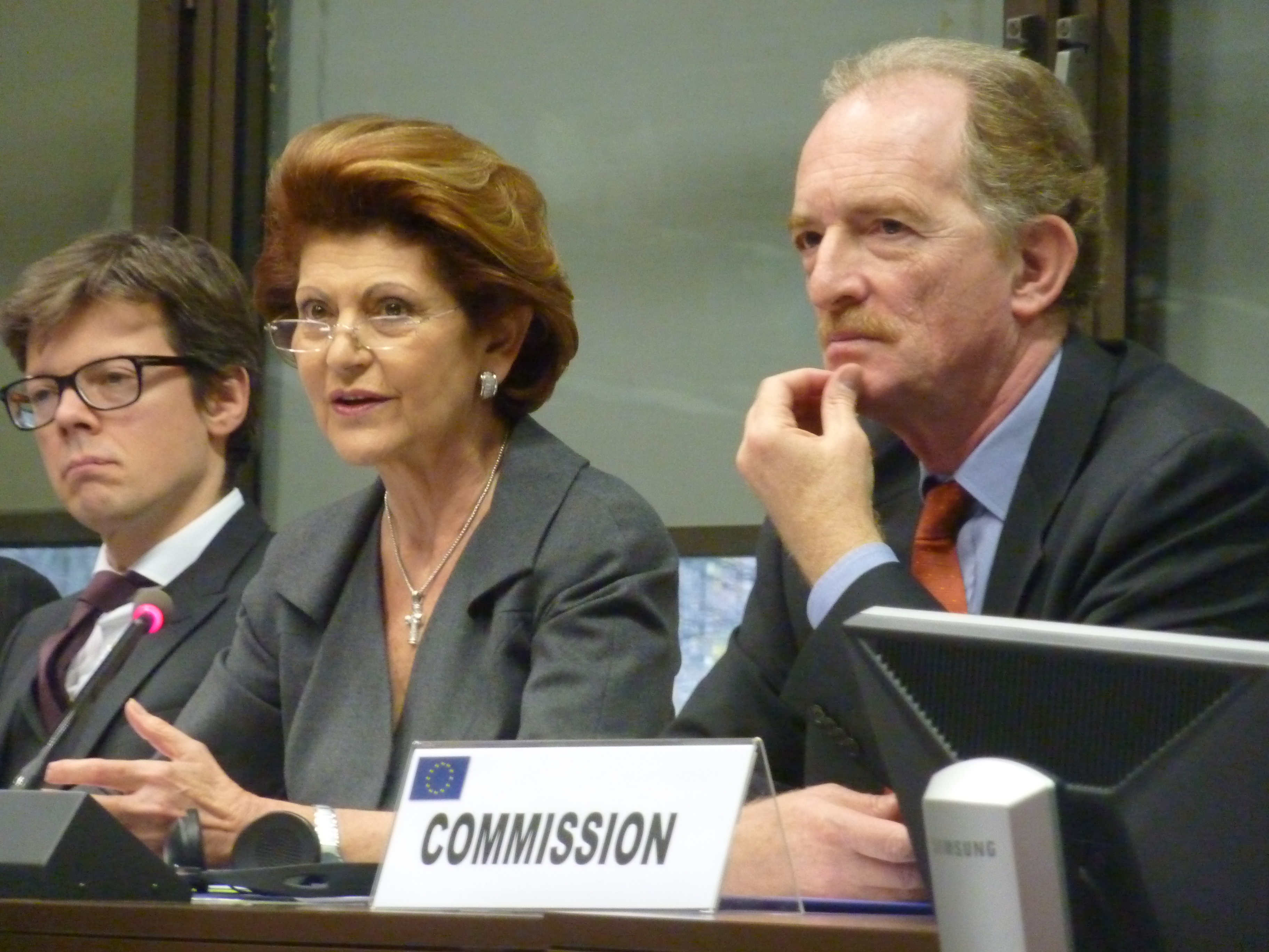 European Commission's Commissioner Androulla Vassiliou and Director-General for Interpretation Marco Benedetti during a meeting with DG Interpretation (SCIC) staff in CCAB, Brussels, 2011-12-12.